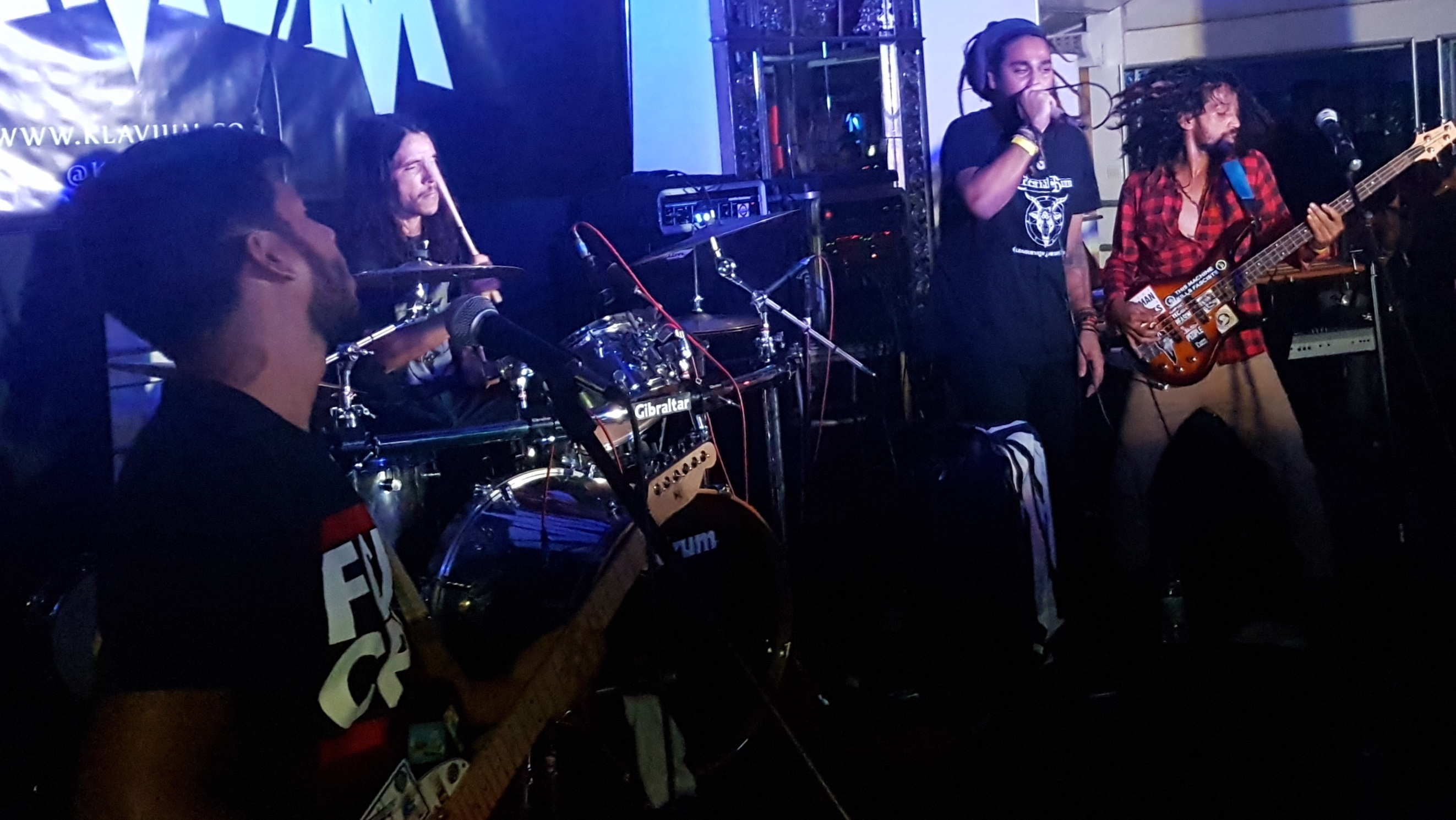 Anti-Everything. San Fernando, Trinidad and Tobago. Skyy Lounge 18.05.2019.